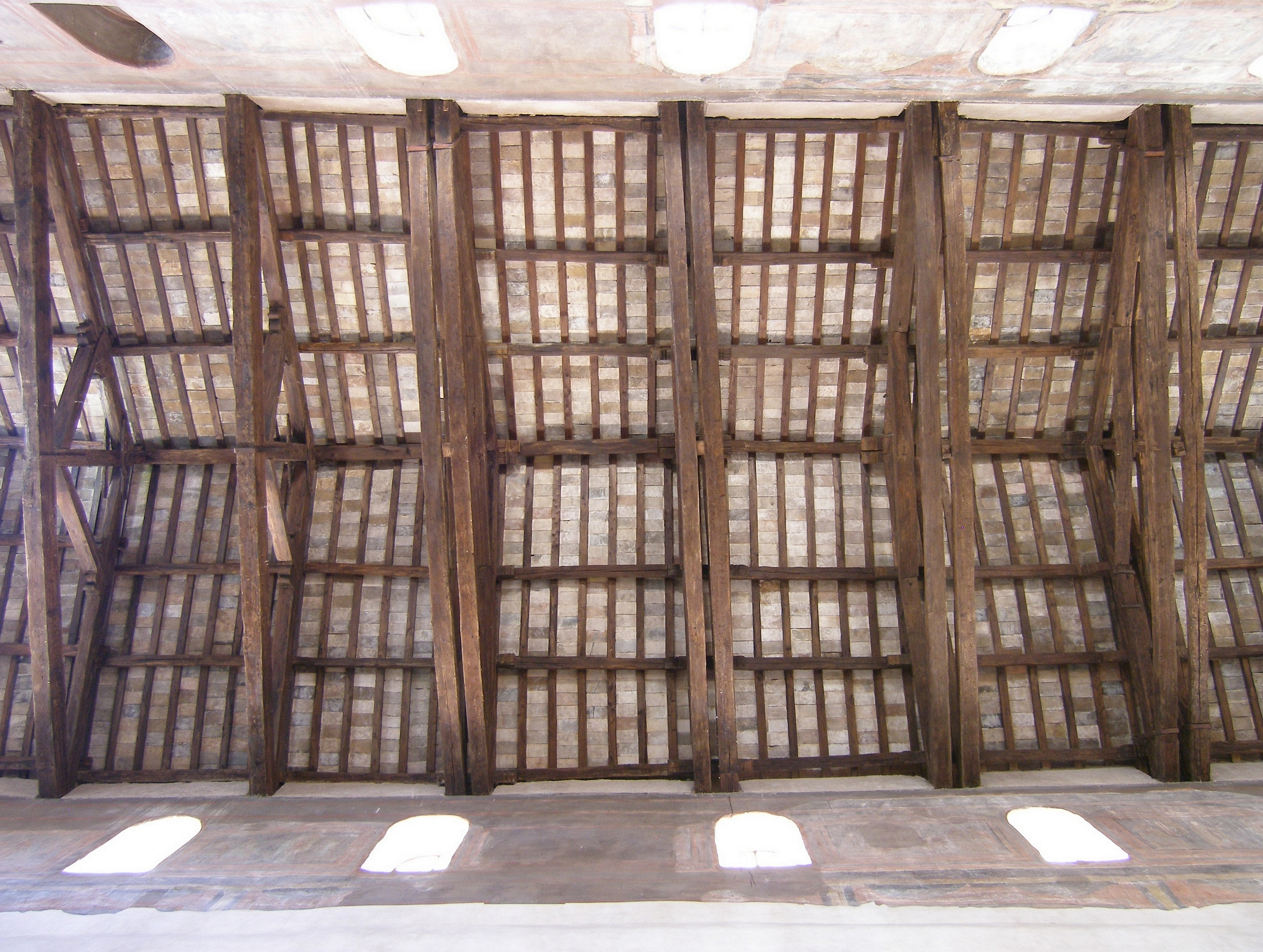 Rom, Santa Maria in Cosmedin, Decke der Basilika